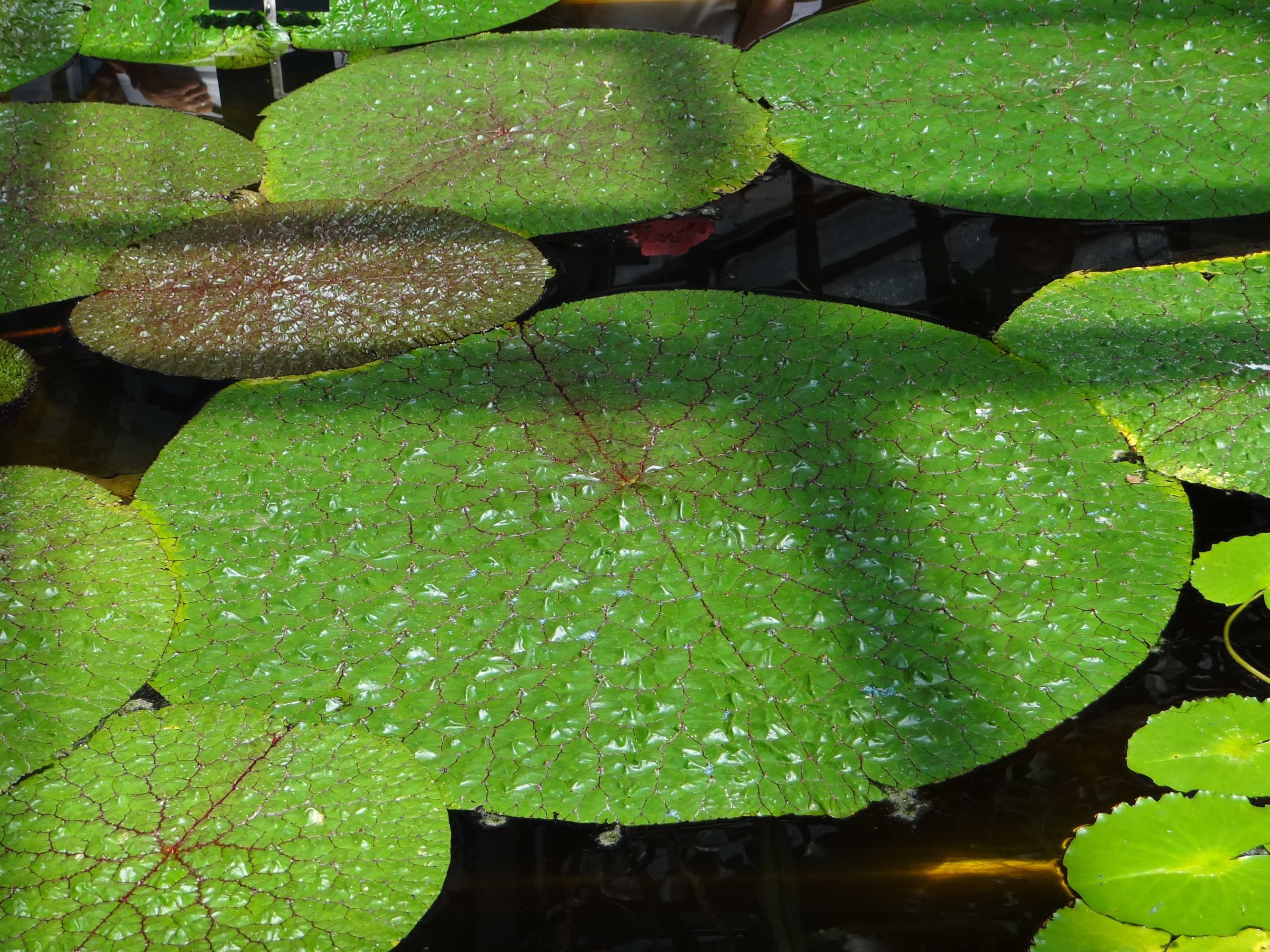 Euryale ferox (location:Botanical Garden in Cracow)